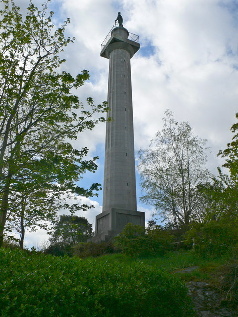 Marquess of Anglesey's Column The tower was finished in 1817, two years after the Battle of Waterloo. In 1860, the bronze statue of the 1st Marquess of Anglesey, William Henry Paget, was placed on the top of the tower. He was Wellington's second in command who lost his leg at Waterloo.